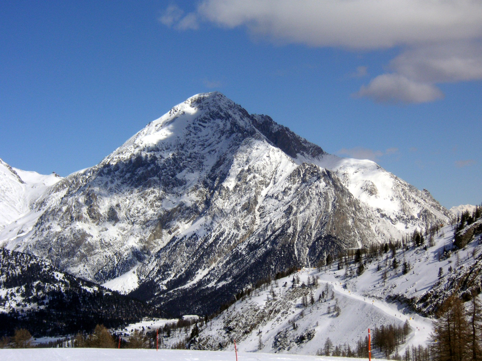 The Col de Montgenèvre (Italian language: Passo del Monginevro) (el. 1854 m.) is a high mountain pass in the Cottian Alps, between France and Italy. Mont Chaberton from wsw